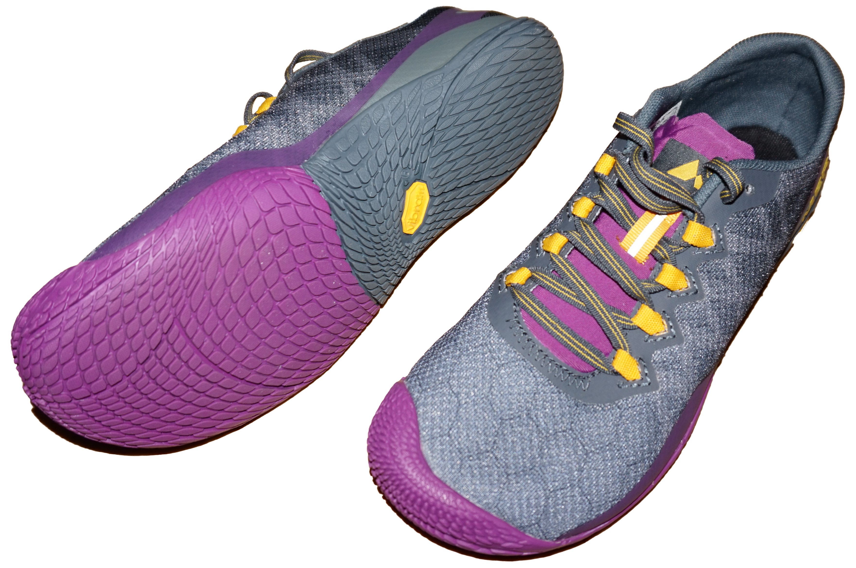 Merrell Vapor Glove 3 women barefoot running shoes. Size: 38, weight: 145 grams/shoe.